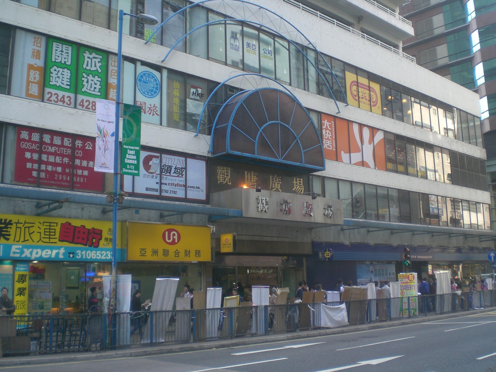 觀塘 開源道